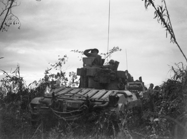 Matilda tanks from the Australian 1st Tank Battalion near Sattelberg, 17 November 1943.